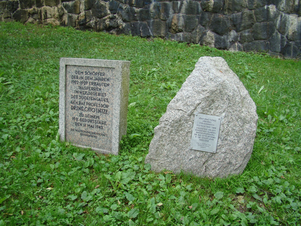 Memorial plaque of professor Otto Intze near Mšeno Dam, Jablonec nad Nisou, Czech Republic. In the left the original 1943 plaque with inscription in German, discovered accidentaly by divers during maintenance of the reservoir in 1996 and subsequently recovered to its current position in a nearby park. In the right a smaller plaque with the same text in Czech translation. To the creator of dams built in years 1902-1909 in Neisse [Czech: Nisa] basin of Sudetes region Geh. Rat. professor Dr. Ing.Otto Intze for 100th anniversary of his birth. May 17, 1943, Reichenberg[Czech: Liberec] Water Cooperative.